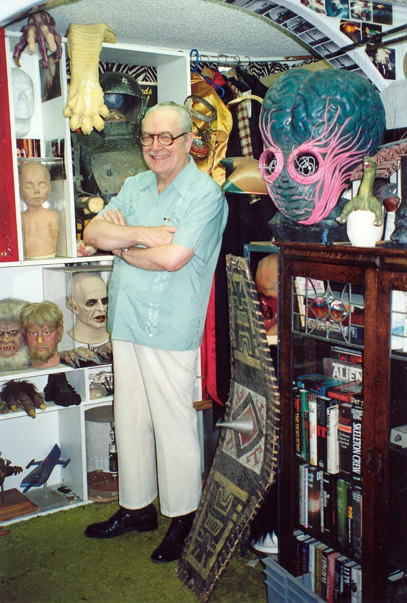 Forrest J Ackerman at his Ackermansion, 1990 - Permission granted to copy, publish, broadcast or post but please credit "photo by Alan Light" if you can